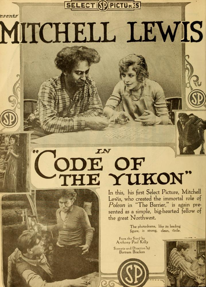 Advertisement on page 6 of the Jan. 4, 1919, Moving Picture World, for Code of the Yukon (1918).